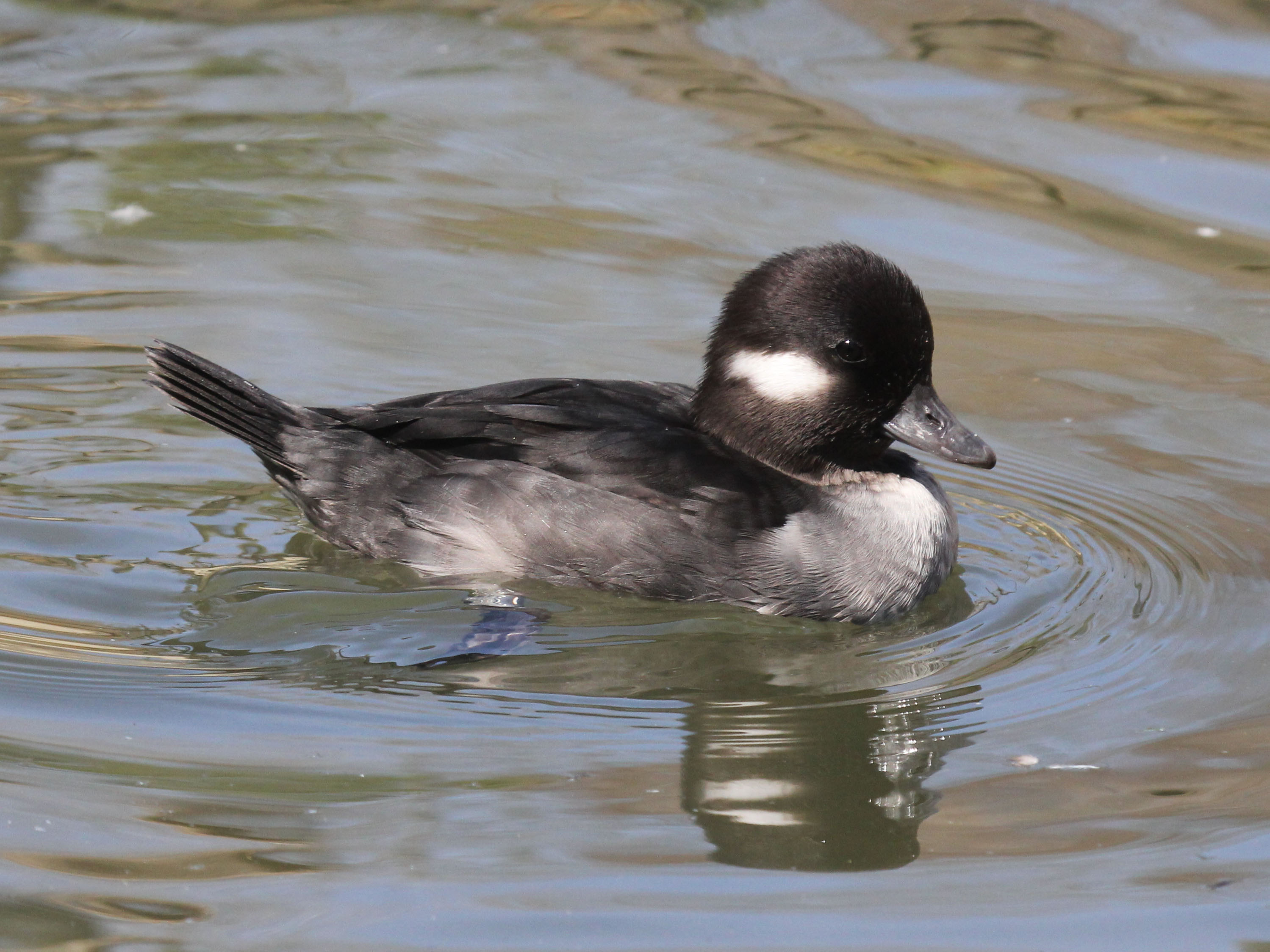 Female bufflehead (Bucephala albeola) at Sylvan Heights Waterfowl Park in Scotland Neck, North Carolina.